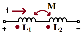 Two inductors in series mutually aiding